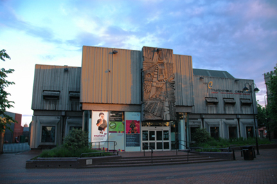 Leigh Library in Leigh, Greater Manchester, England.